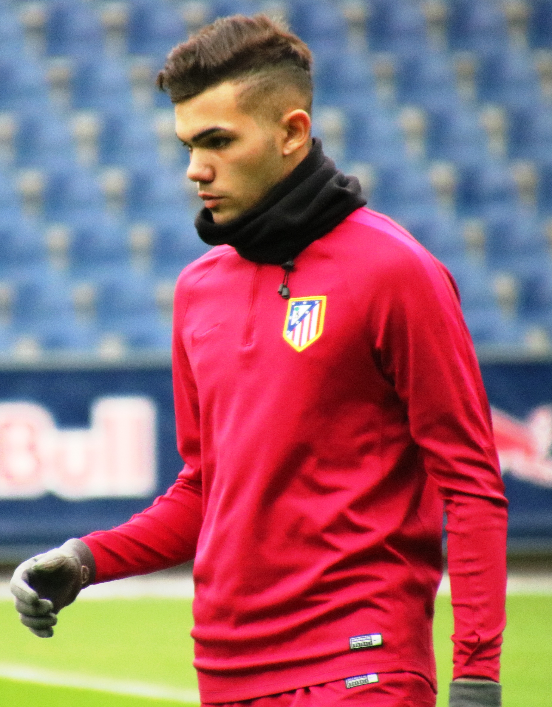 Round of 8 match Uefa Youth League